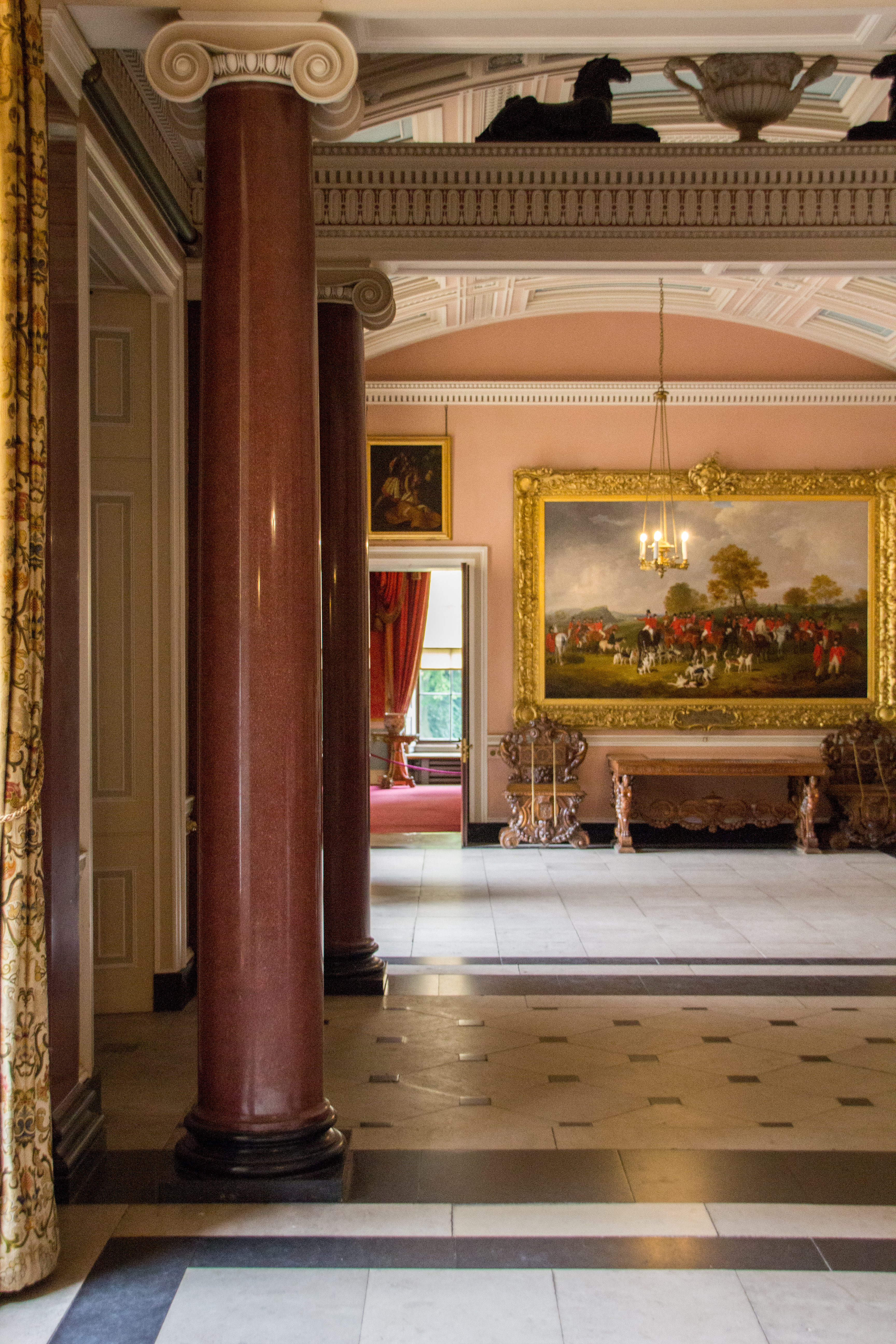 Inside Tatton Hall, Tatton Park, United Kingdom